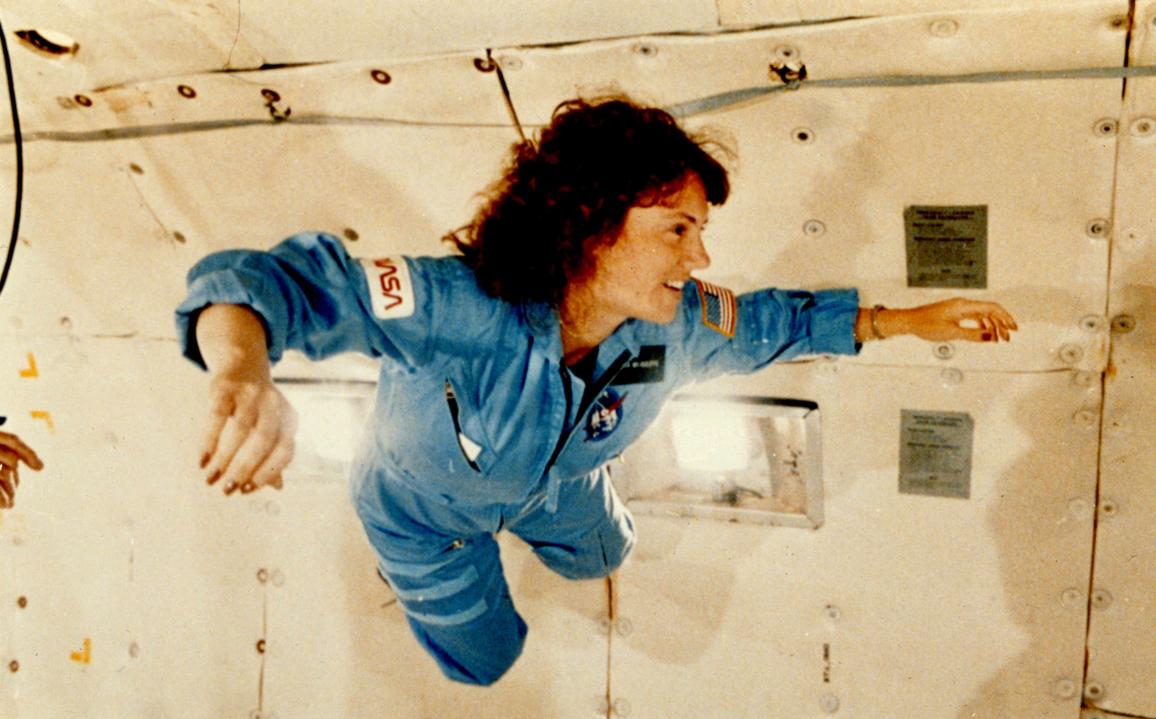 Sharon Christa McAuliffe received a preview of microgravity during a special flight aboard NASA's KC-135 "zero gravity" aircraft. A special parabolic pattern flown by the aircraft provides shore periods of weightlessness. These flights are often nicknamed the "vomit comet" because of the nausea that is often induced. McAuliffe represented the Teacher in Space Project aboard the STS 51-L/Challenger when it exploded during take-off on January 28, 1986 and claimed the lives of the crewmembers.